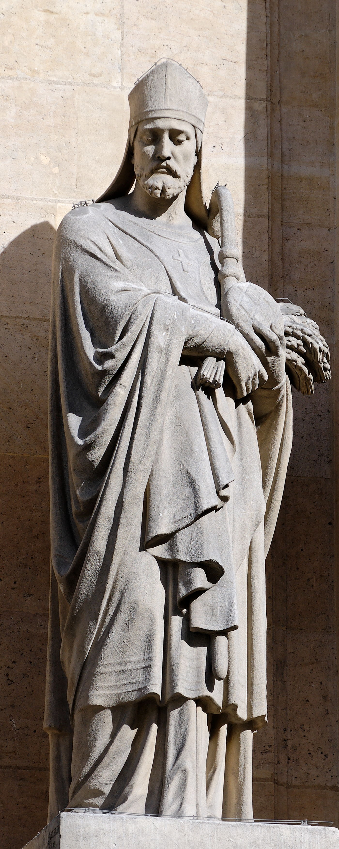 St. Honoratus by Eugène Aizelin (1873). Left-hand niche, façade of Saint-Roch, 1st arrondissement of Paris.